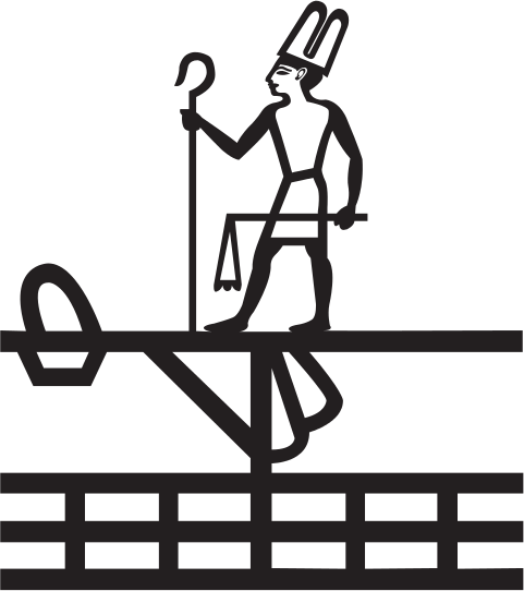 This ancient Egyptian hieroglyphic sign is the 9th nomos of Lower-Egypt. This sign was made with JSesh And then imported in The GIMP.